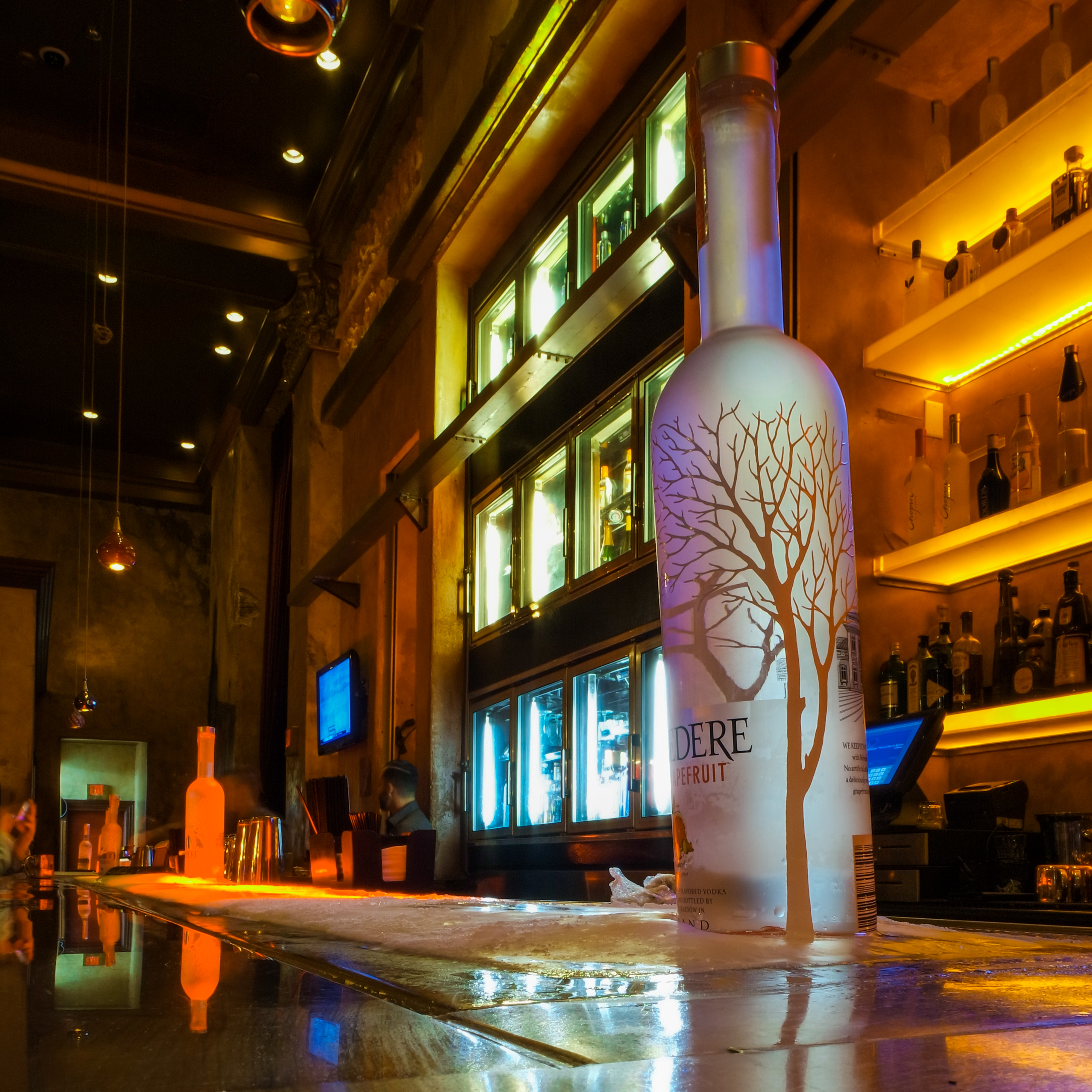 Belvedere Vodka at Red Square in Mandalay Bay